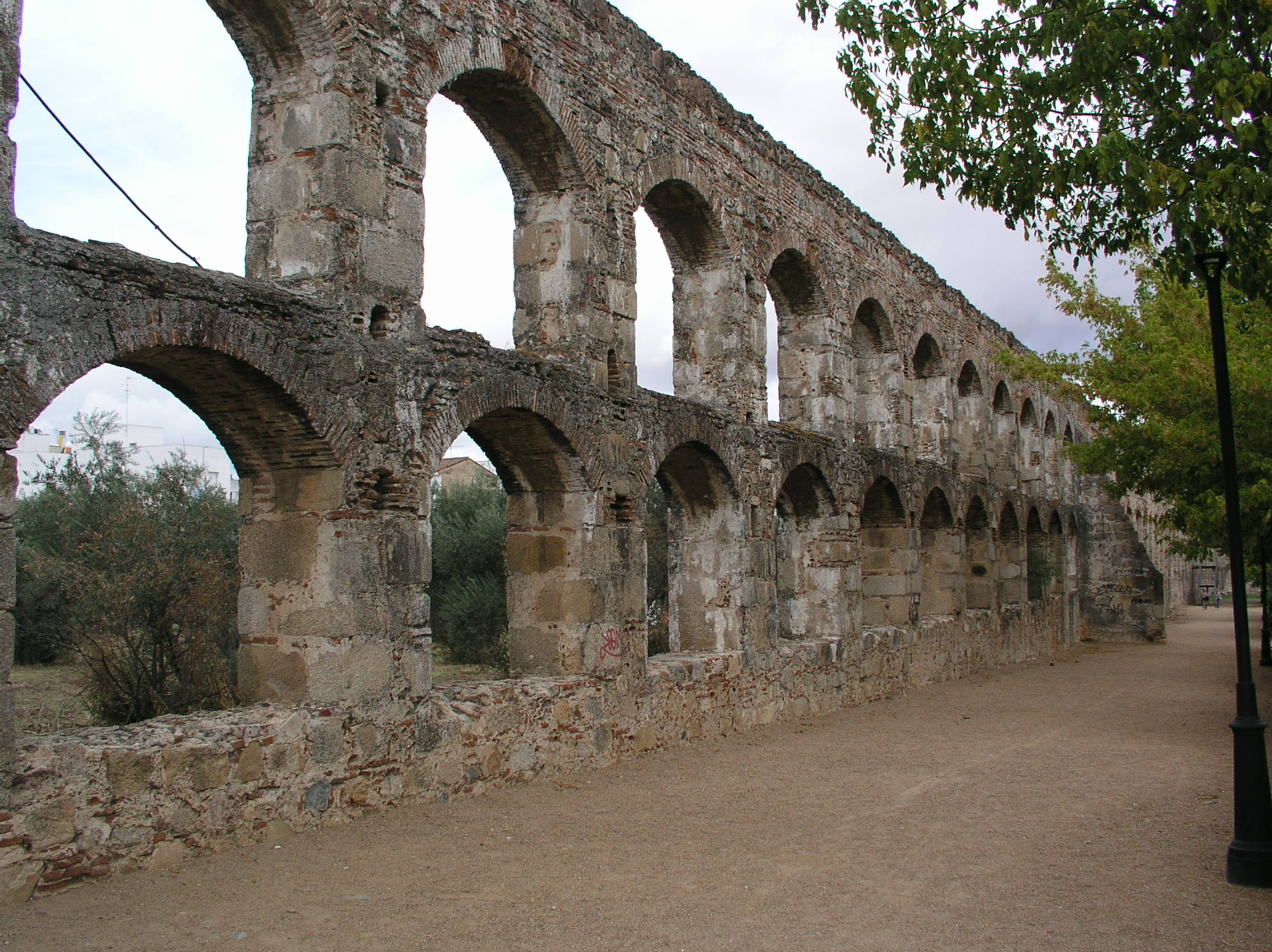 The Acueduto de San Lázaro (Aqueduct of Saint Lazarus) in Mérida, Province of Badajoz, Extremadura, Spain.